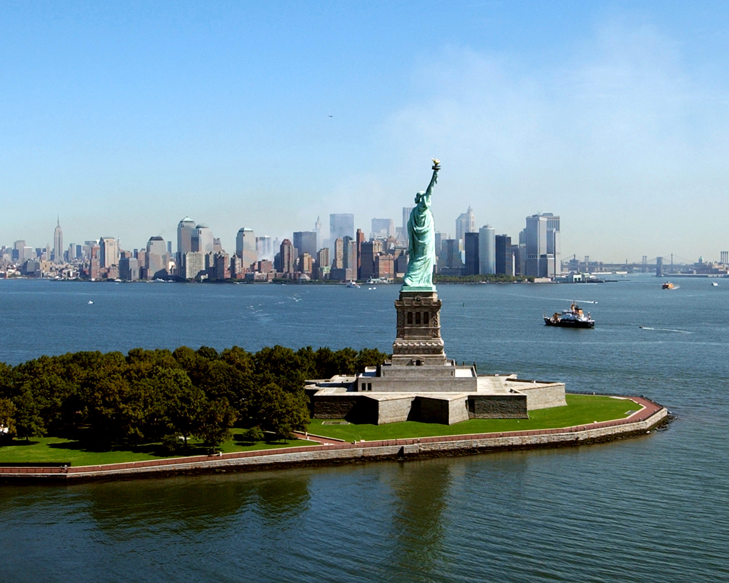 Ground Zero, New York City, N.Y. (Sept. 17, 2001) -- The twin towers of Manhattan's World Trade Center had been a prominent feature in views such as this one of the Statue of Liberty. The World Trade Center collapsed following the Sept. 11 terrorist attack on the structure. Surrounding buildings were heavily damaged by the debris and massive force of the falling twin towers. Clean-up efforts are expected to continue for months. U.S. Navy photo by Chief Photographer's Mate Eric J. Tilford. (RELEASED)